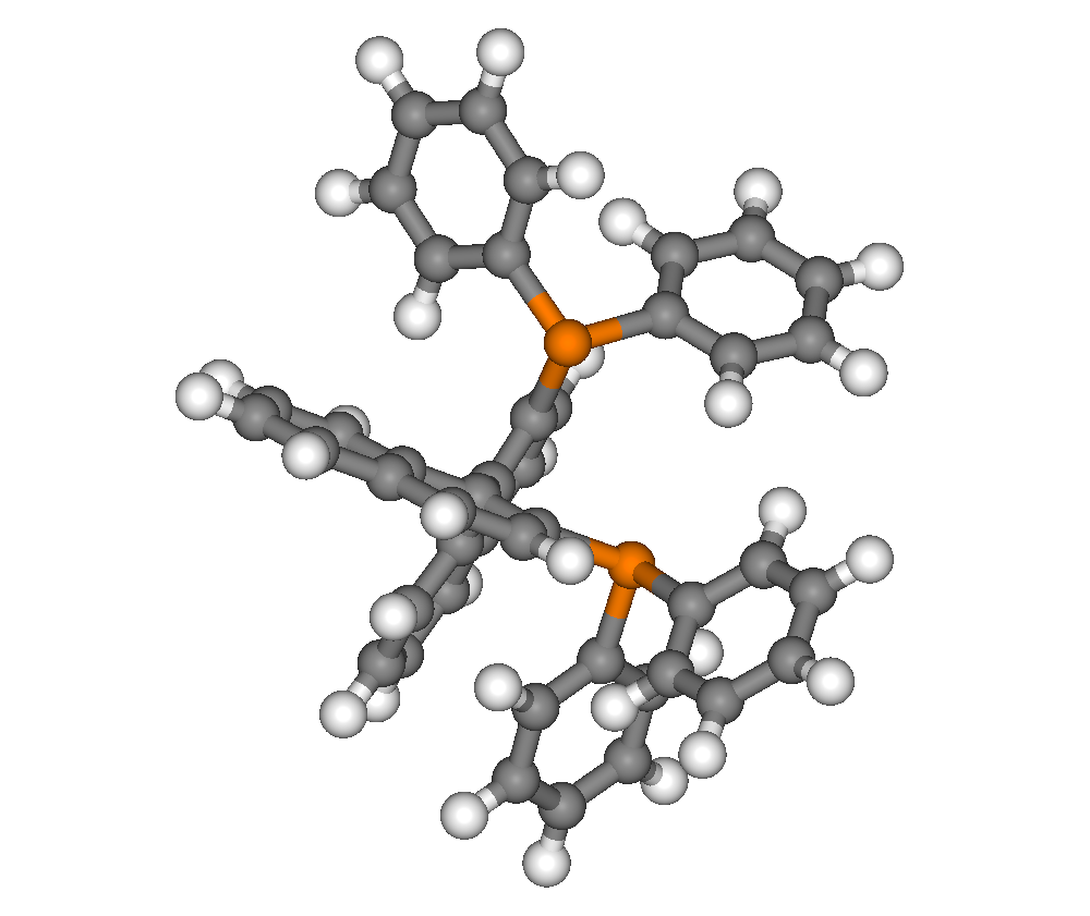 Chemical structure of BINAP. Low energy conformation using MM2 minimization.